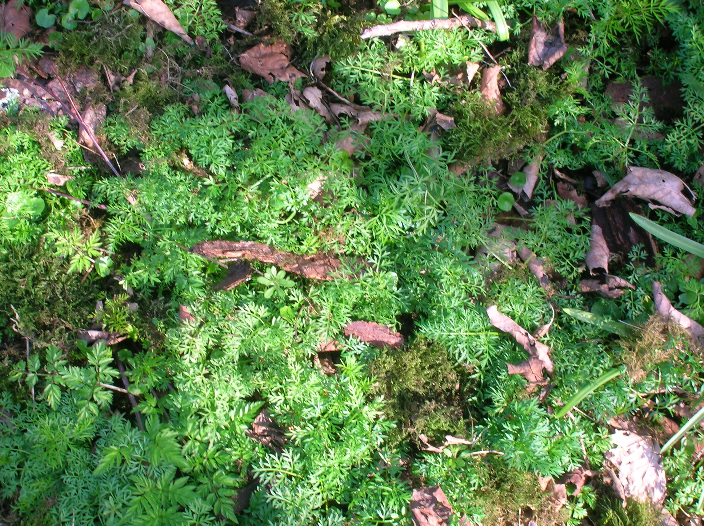 Pignut (Conopodium majus) in early spring. Lady's Well, Kilmaurs, East Ayrshire, Scotland.